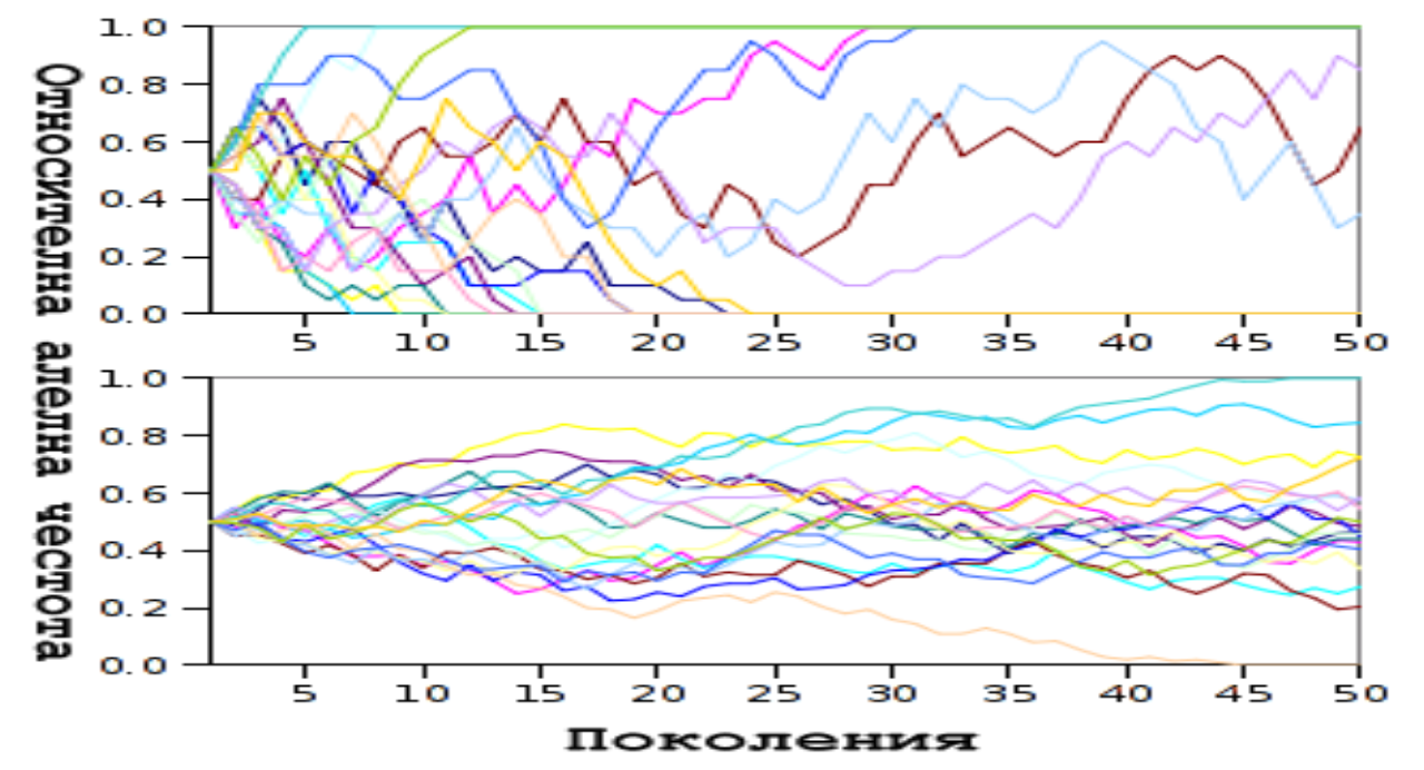 Modification of Image:Allele-frequency.png